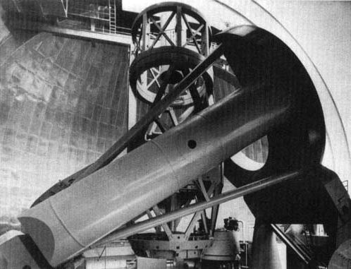 Mt.Palomar's 200-inch Telescope, pointing to the zenith, as seen from the east side. Note the person standing below the telescope (center-right at the bottom of the image).